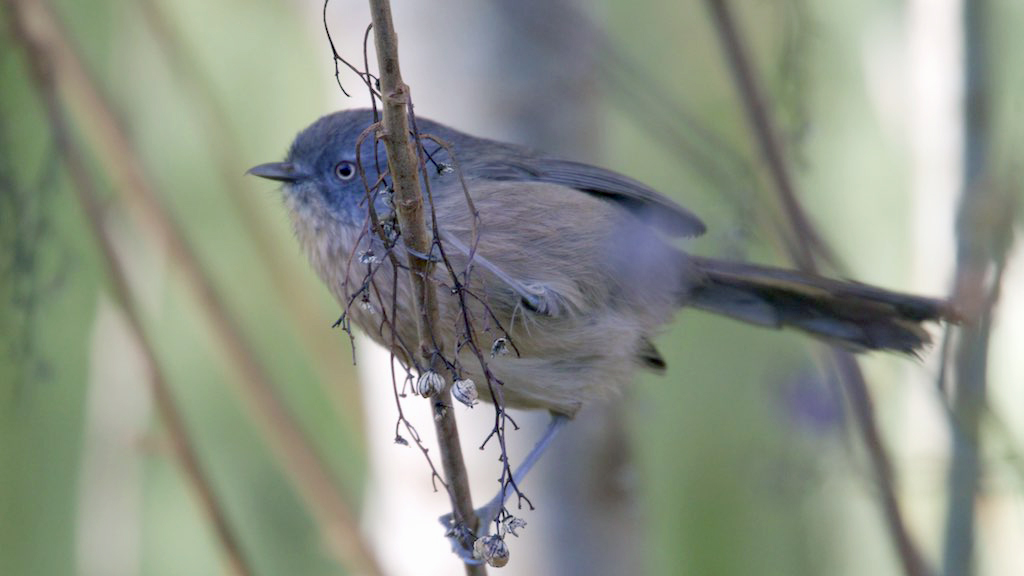 Wrentit | Whitehouse Pool | Marin | CA | 2015-10-20at10-04-013